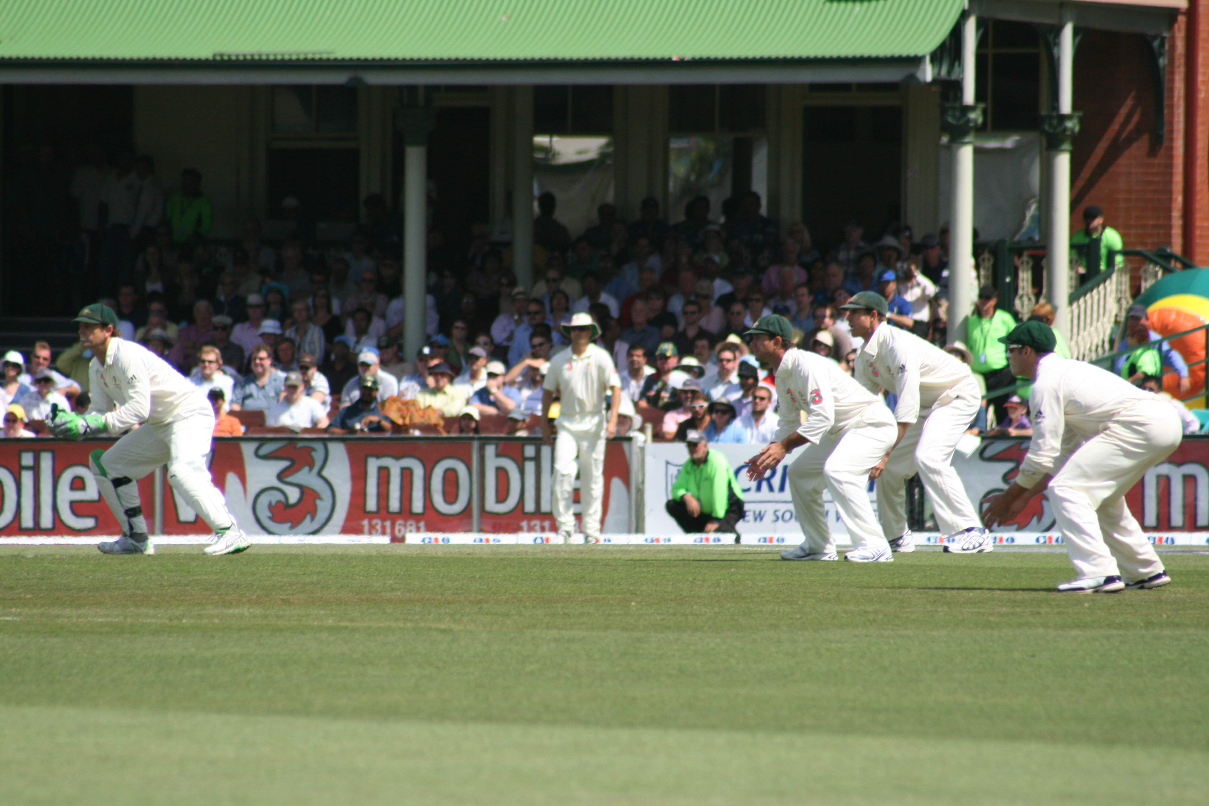 Adam Gilchrist and the Australian slips concentrate as a ball is delivered